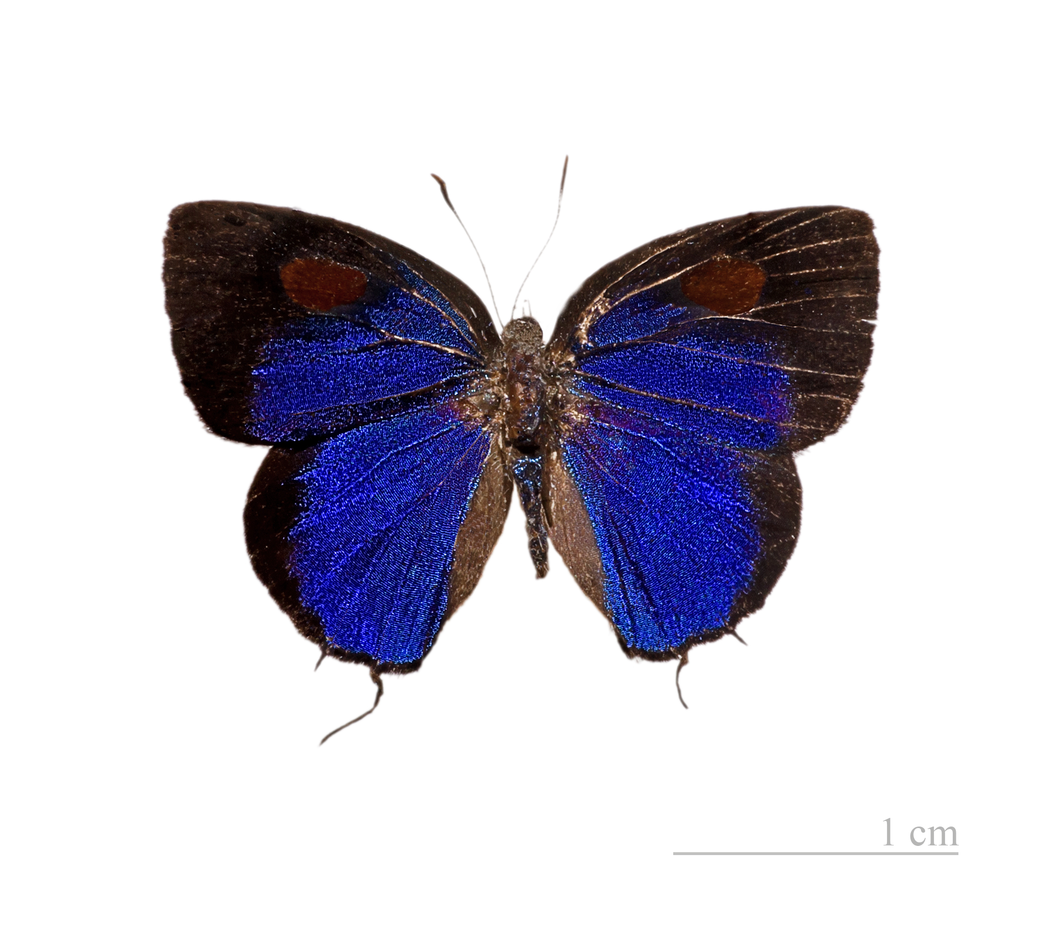 ♂ - Dorsal side Locality : Chutes Fourgassié, Route de Kaw, French Guiana.